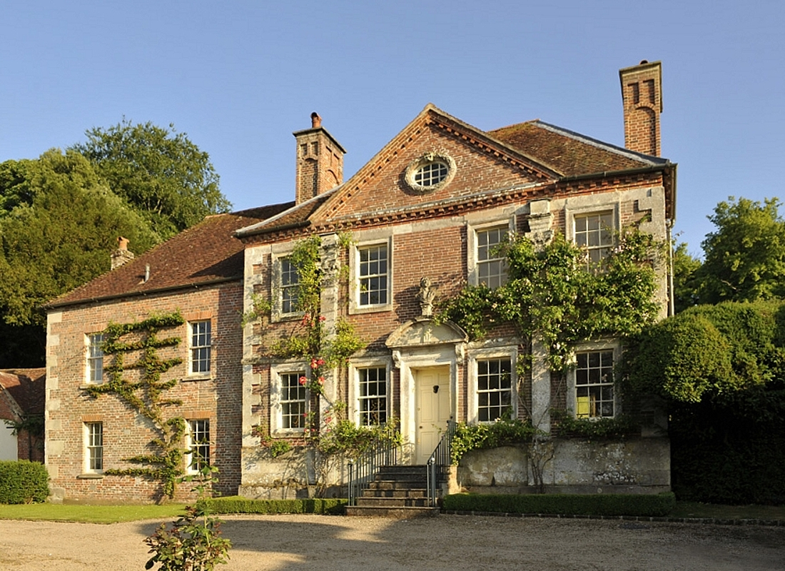 Reddish House, Broad Chalke, Wiltshire. Former home of photographer Cecil Beaton where he photographed many famous people of the day, and later the home of singer Toyah Wilcox and her husband Robert Fripp of King Crimson.